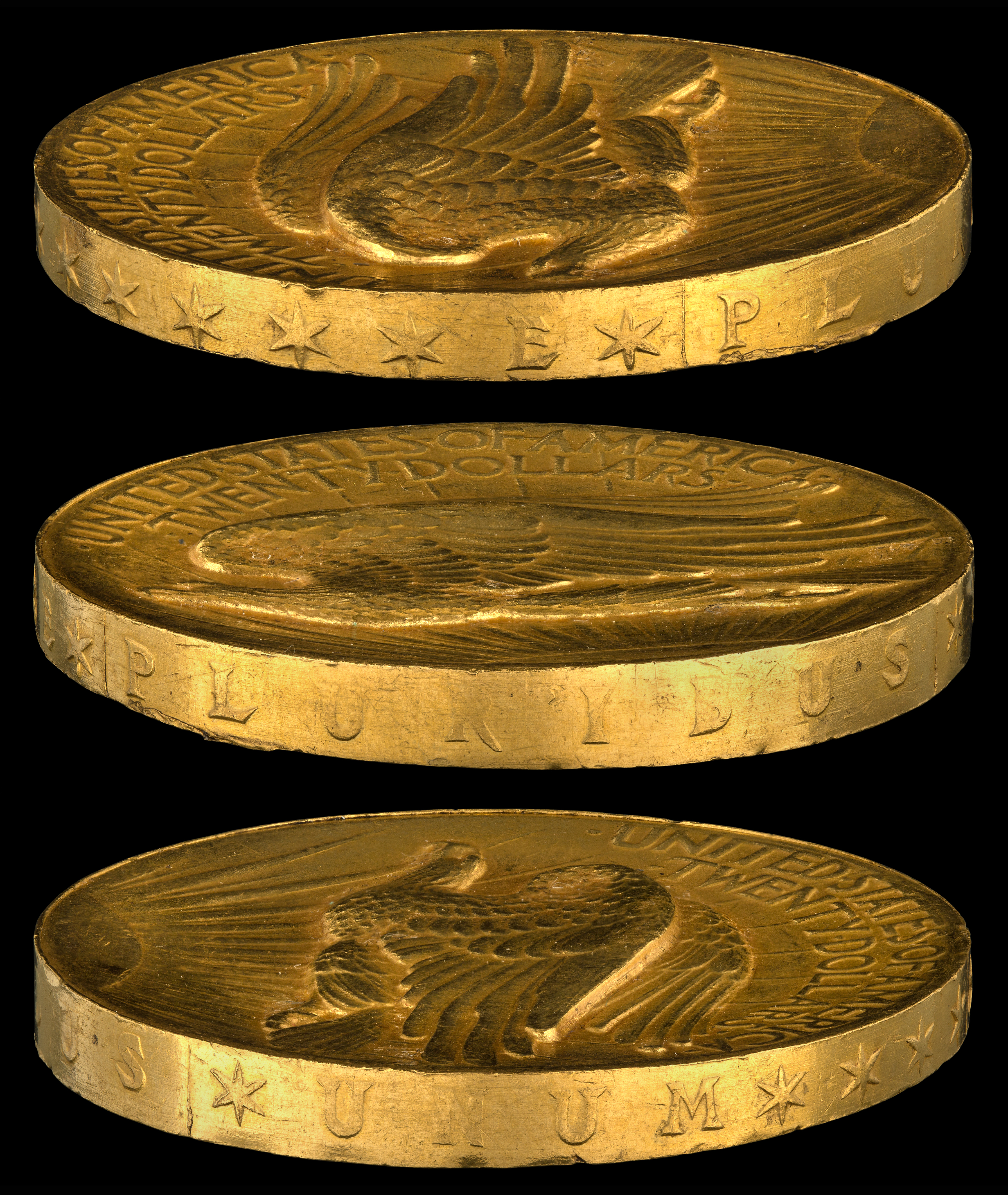 1907 G$20 Saint Gaudens (Roman, high relief) edge detailGold (fineness 0.9000), 34mm, 33.436g, designed by Augustus Saint-Gaudens, edge detailJN2015-7032-33-34